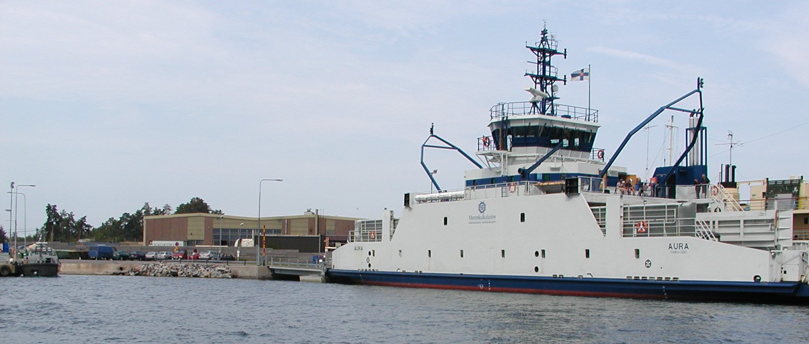 M/S Aura in Kasnäs, Dragsfjärd, Finland. IMO Number: 8959867 Callsign: OJAI